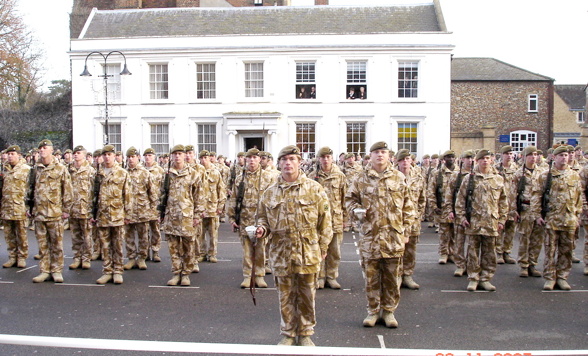 Royal Anglian Regiment in Bury St Edmunds, 2007. Back from Afghanistan. Major Dom Biddick is here seen in front of his company.